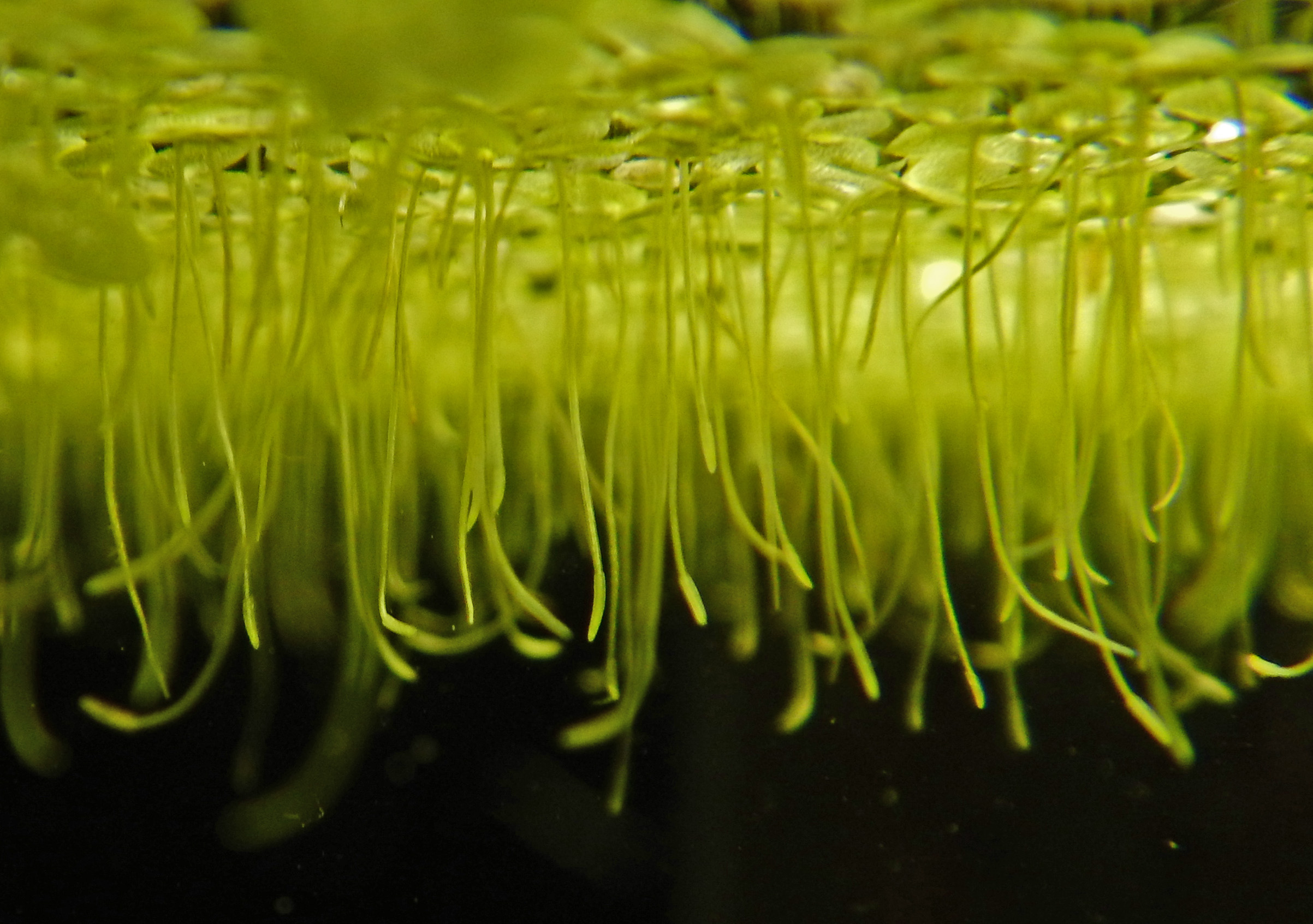 Floating mats of Lemna minor (= duckweed), of the family of Araceae and subfamily Lemnoideae (formerly family Lemnaceae), here photographed from below (subaquatic view), in an aquarium.